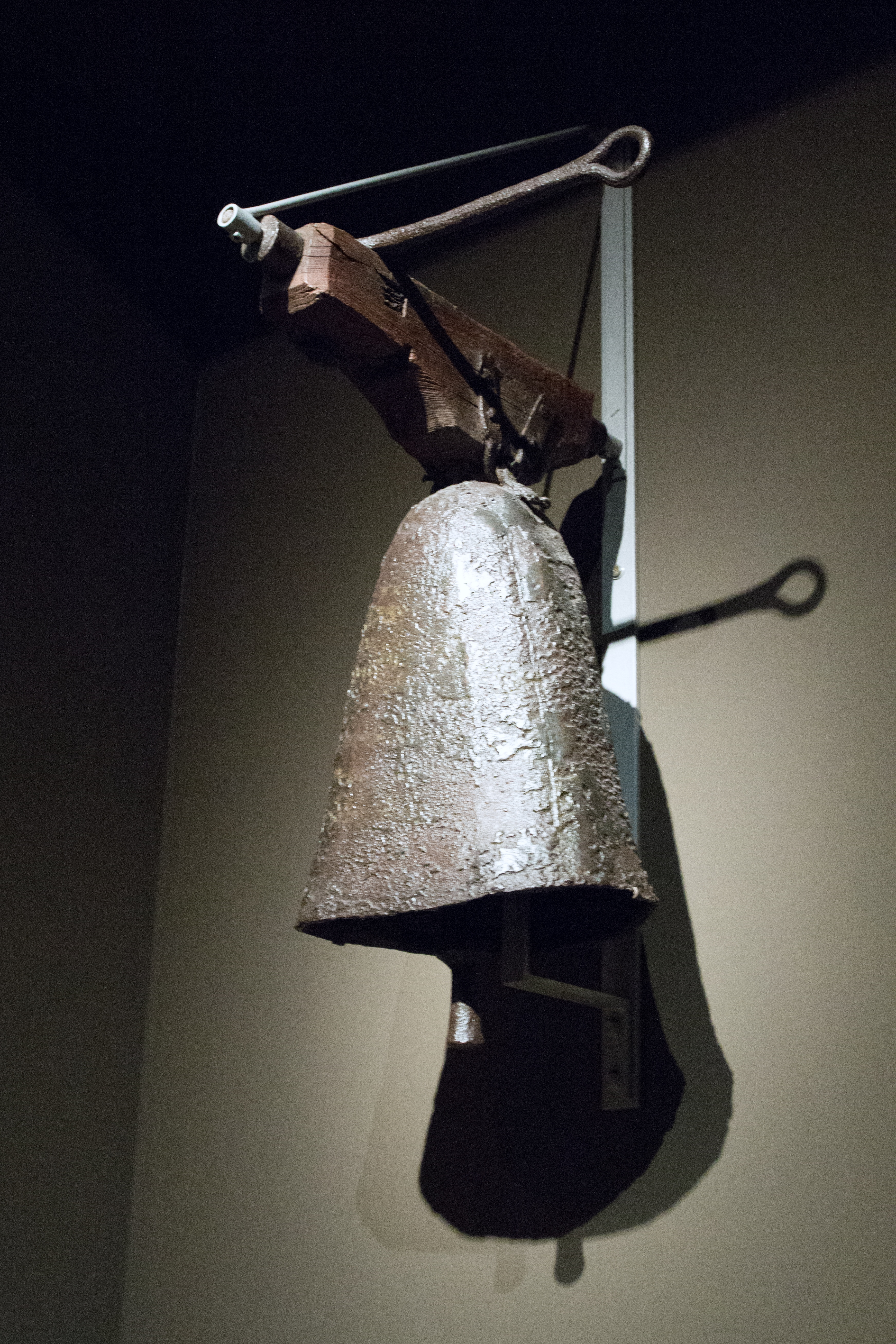 The "Saufang" Bell. Cologne, 9th century (?), iron sheet coated with copper alloy. Kölnisches Stadtmuseum, Inv. No. KSM 1983/263.